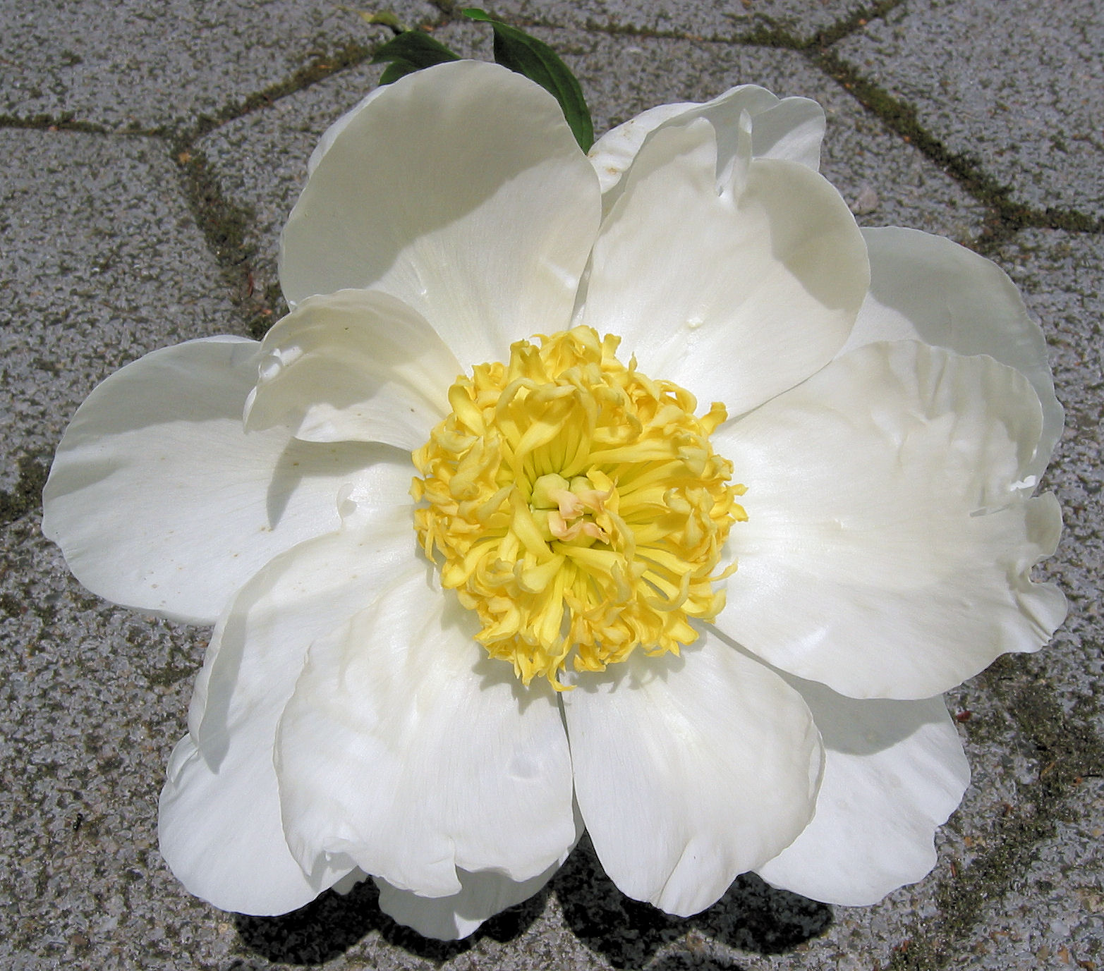 Paeonia 'Jan van Leeuwen'